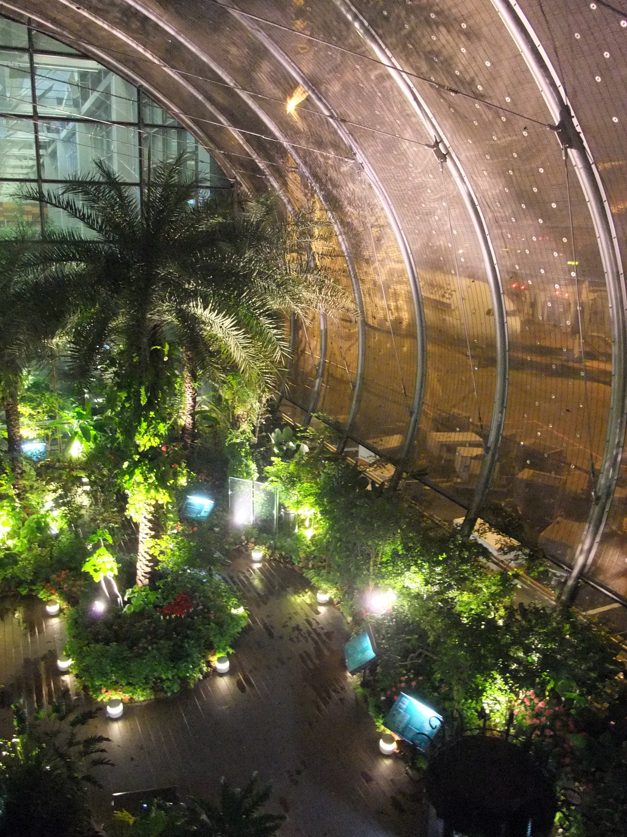 butterfly garden in Terminal three, Changi Airport, Singapore